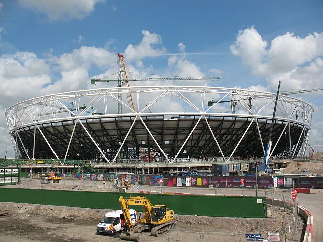 Olympic stadium construction, May 2009. Compare the similar view four months earlier at File:London olympic stadium construction.jpg to assess progress on construction of the stadium.